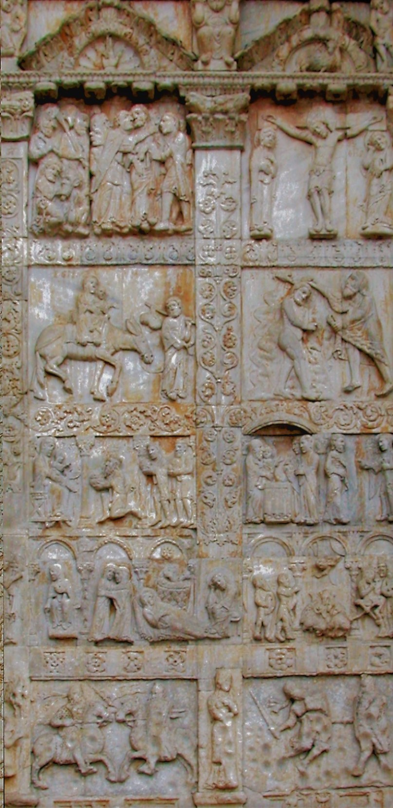 Verona, church of San Zeno Maggiore, panel with sculpture on the right side of the main door